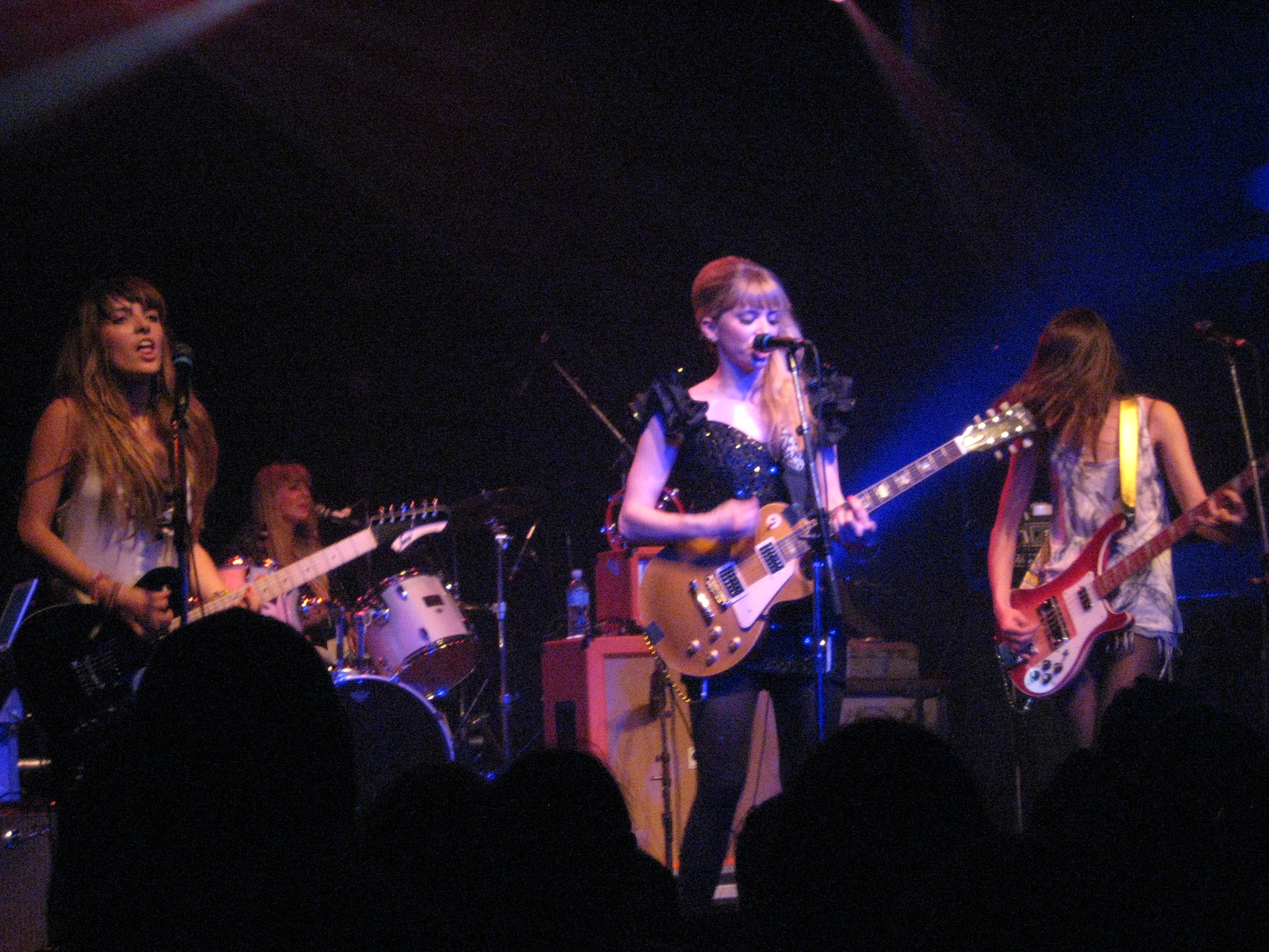 Plastiscines peforming at the Mod Club in Toronto